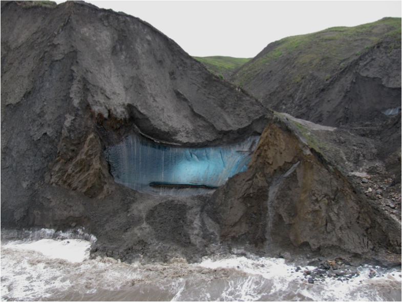 Massive blue ground ice exposure on the north shore of Herschel Island, Yukon, Canada.